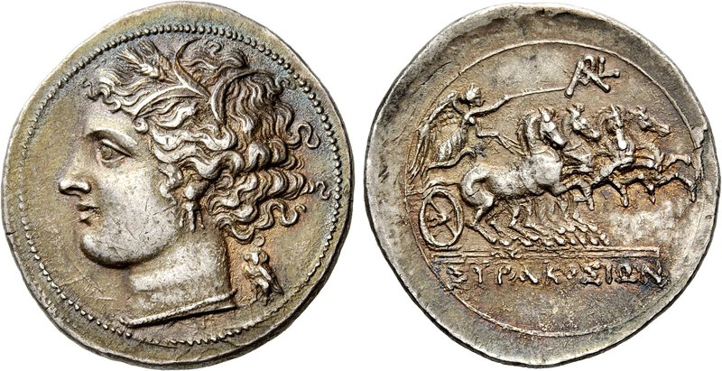 Sicily, Syracuse. Fifth Democracy. 214-212 BC. 8 Litrai (Silver, 6.76 g 6), signed by the engraver Ly(sid...) within the exergual lines on the reverse. Head of Kore-Persephone to left, wearing wreath of grain leaves, triple pendant earring and pearl necklace; behind, owl standing left. ΣΥΡΑΚΟΣΙΩΝ Nike, holding goad in her right hand and reins in her left, driving quadriga galloping to right; above, monogram of ΑΡΚ; on ground line, in tiny letters, ΛΥ.